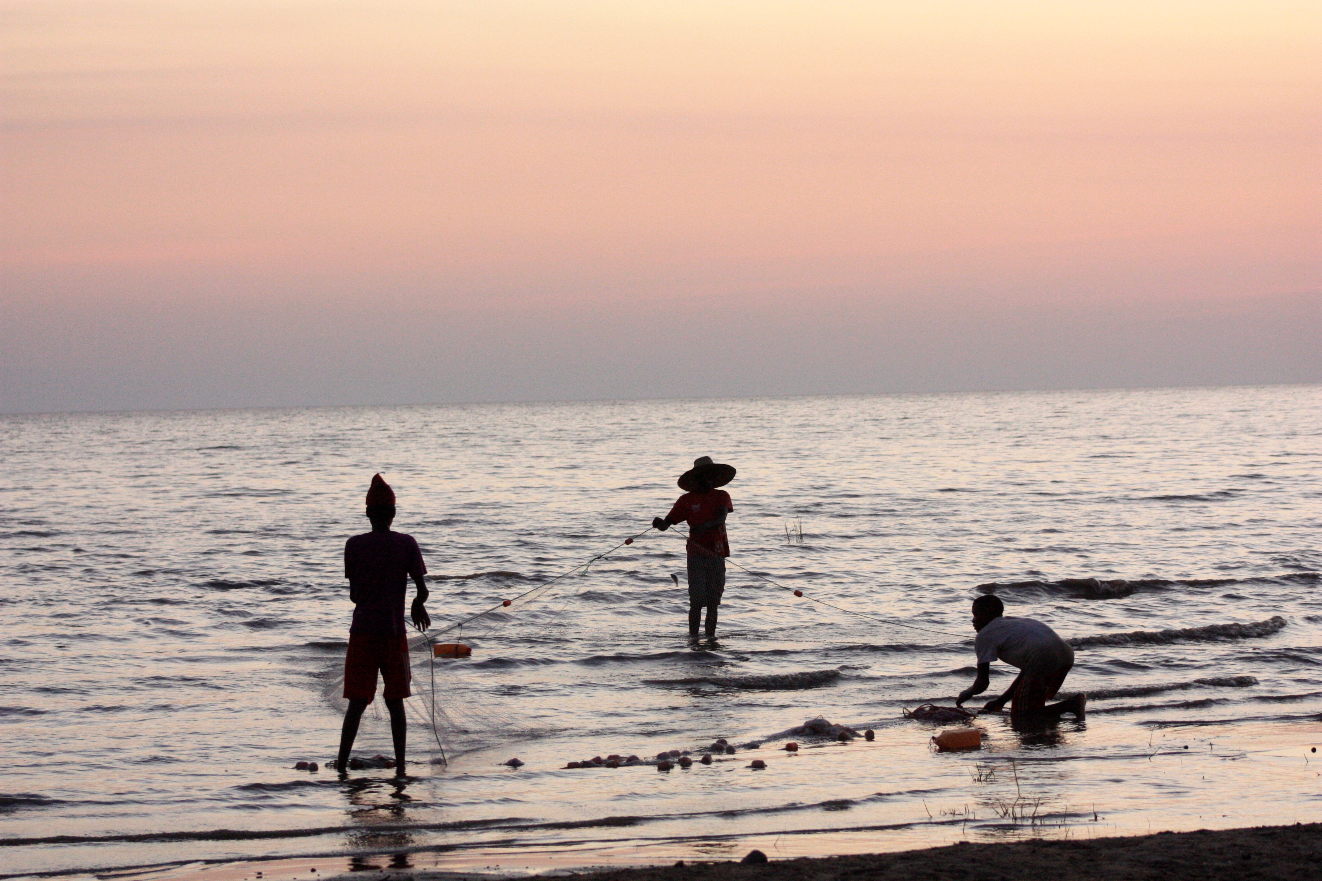 Lake Rukwa in Tanzania and local fisherman This is an image of "African people at work" from Tanzania